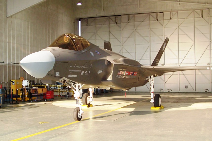 From actual image location: Images on website are US GOV PD, unless stated to be manufacturer's own images. No such notice on this image/gallery.